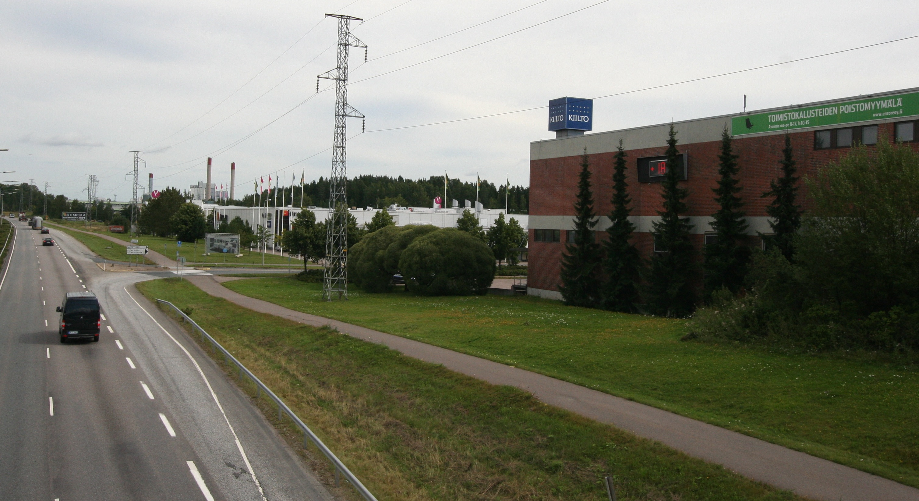 Varisto in Vantaa, Finland, from the Ring road III (Highway 50/E18)